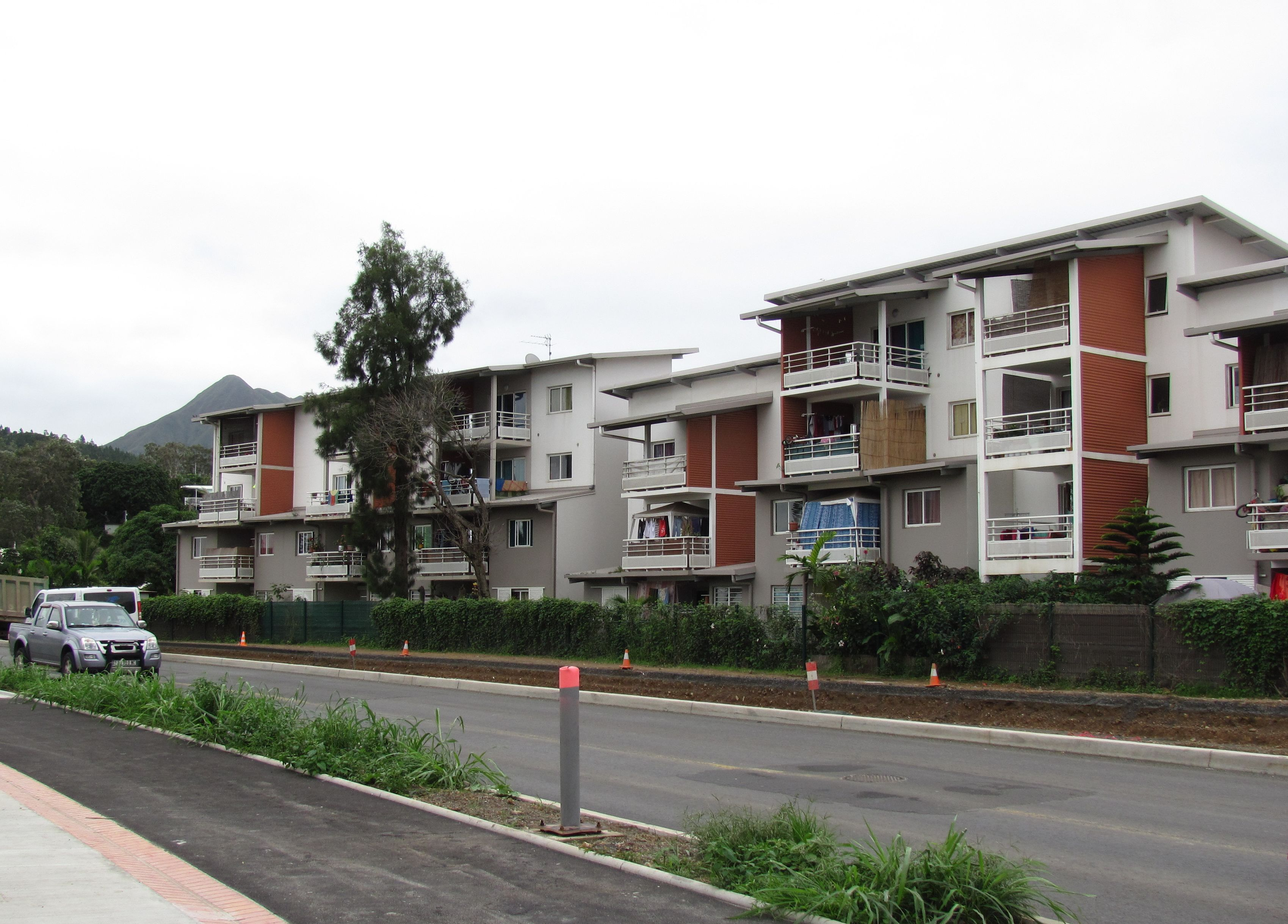 High Street, Le Mont-Dore, New Caledonia